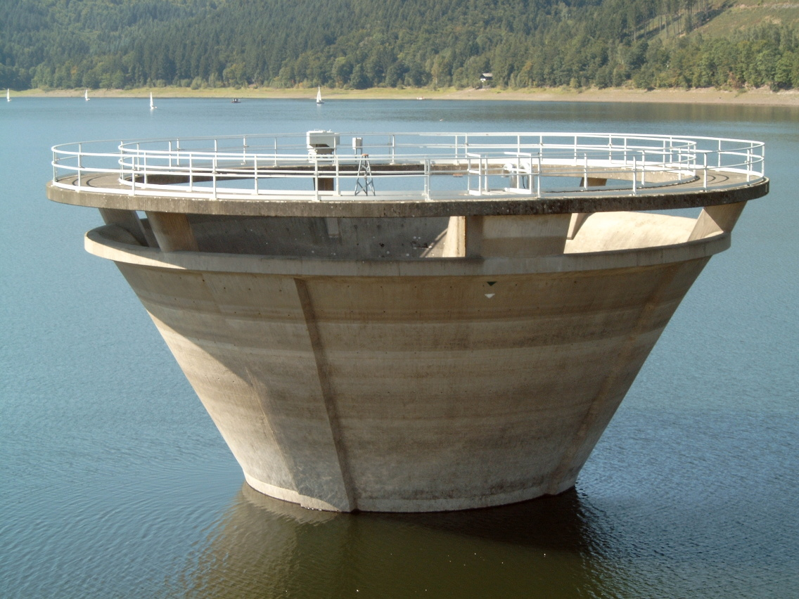 "Innerstetalsperre", overflow